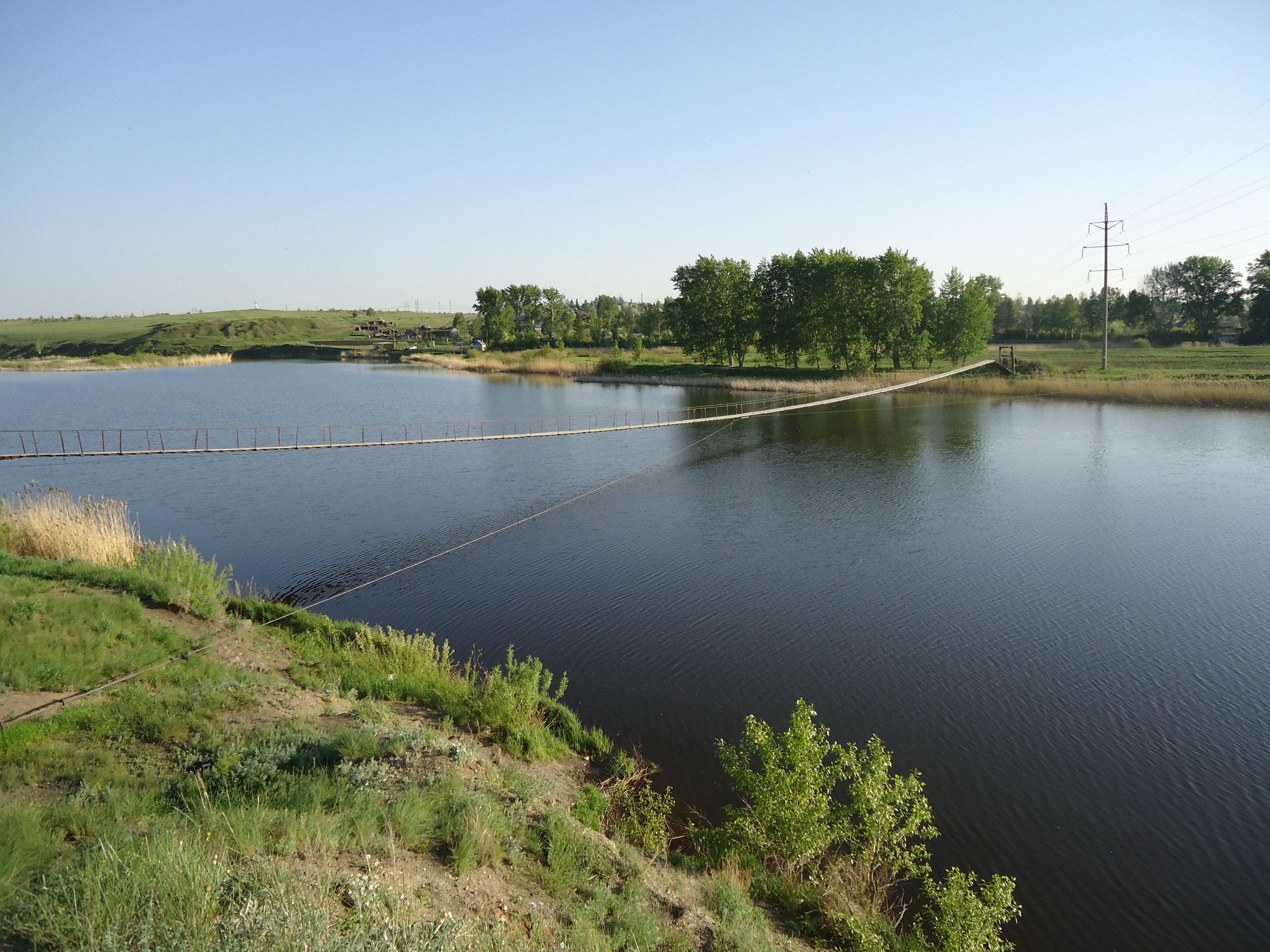 Suspension bridge over the river Uj, Troitsk, Chelyabinsk region